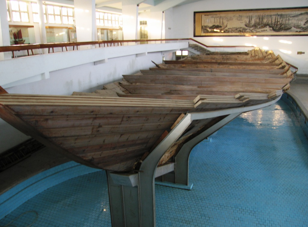 Quanzhou Boat, preserved in a special pavilion (a branch of the Quanzhou Overseas Relations Museum) on the grounds of Kaiyuan Temple, Quanzhou